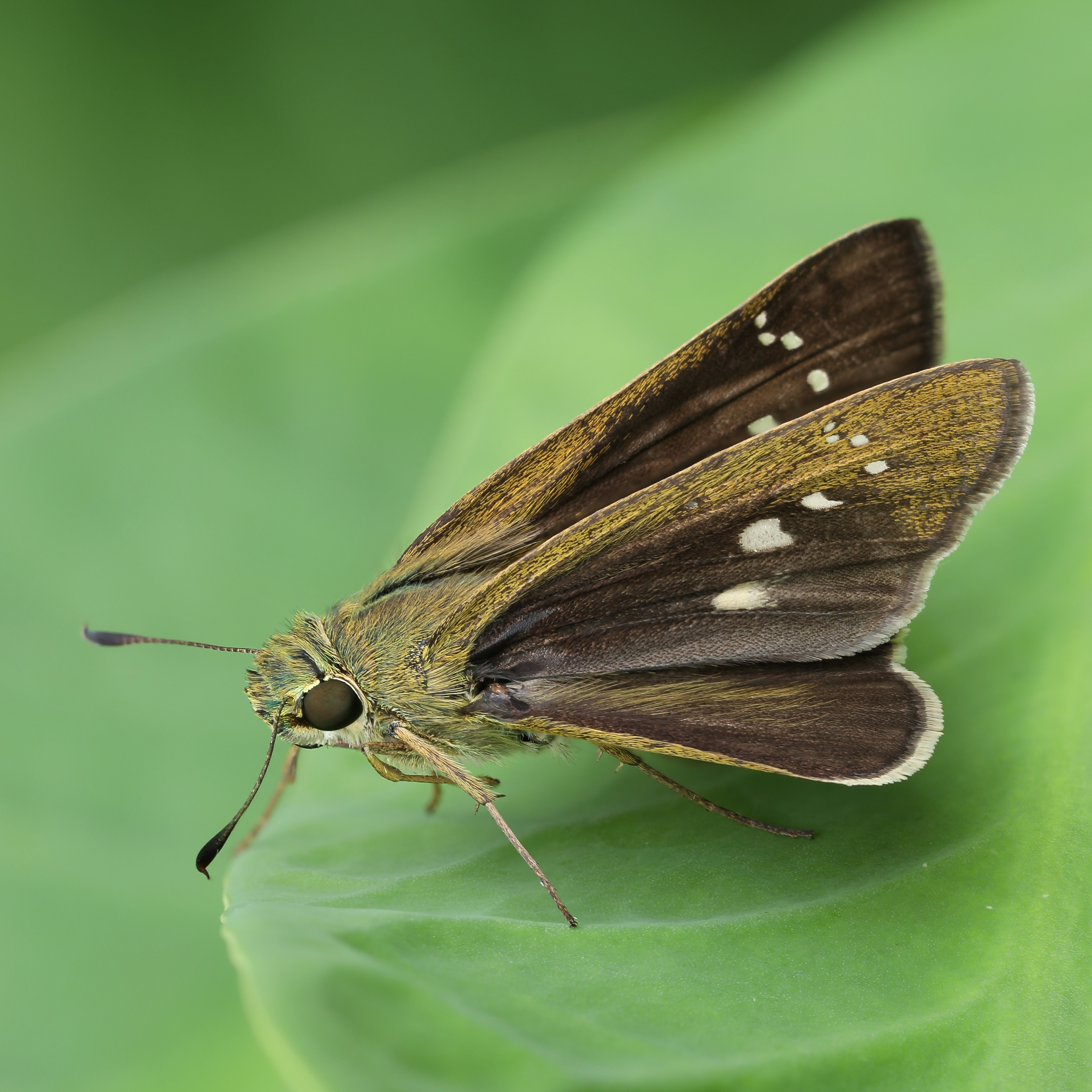 Borbo cinnara (Rice swift or Formosan swift) on a leaf, in Don Det, Si Phan Don, Laos. Focus stacking from 8 pictures